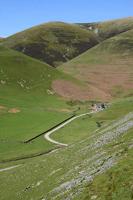 Upper Dalveen This cottage nestling below the Lowther Hills at Dalveen Pass is viewed from the A702 road.